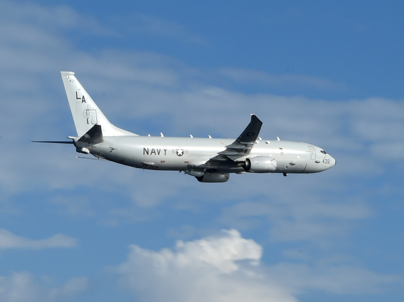 A U.S. Navy Boeing P-8A Poseidon from Patrol Squadron Five (VP-5) flies by the amphibious assault ship USS Peleliu (LHA-5), not visible, during a routine exercise in the Philippine Sea.